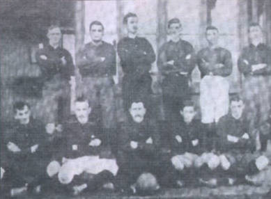 The Argentine football team Newell's Old Boys that won its first title, the Copa Pinasco in 1905.